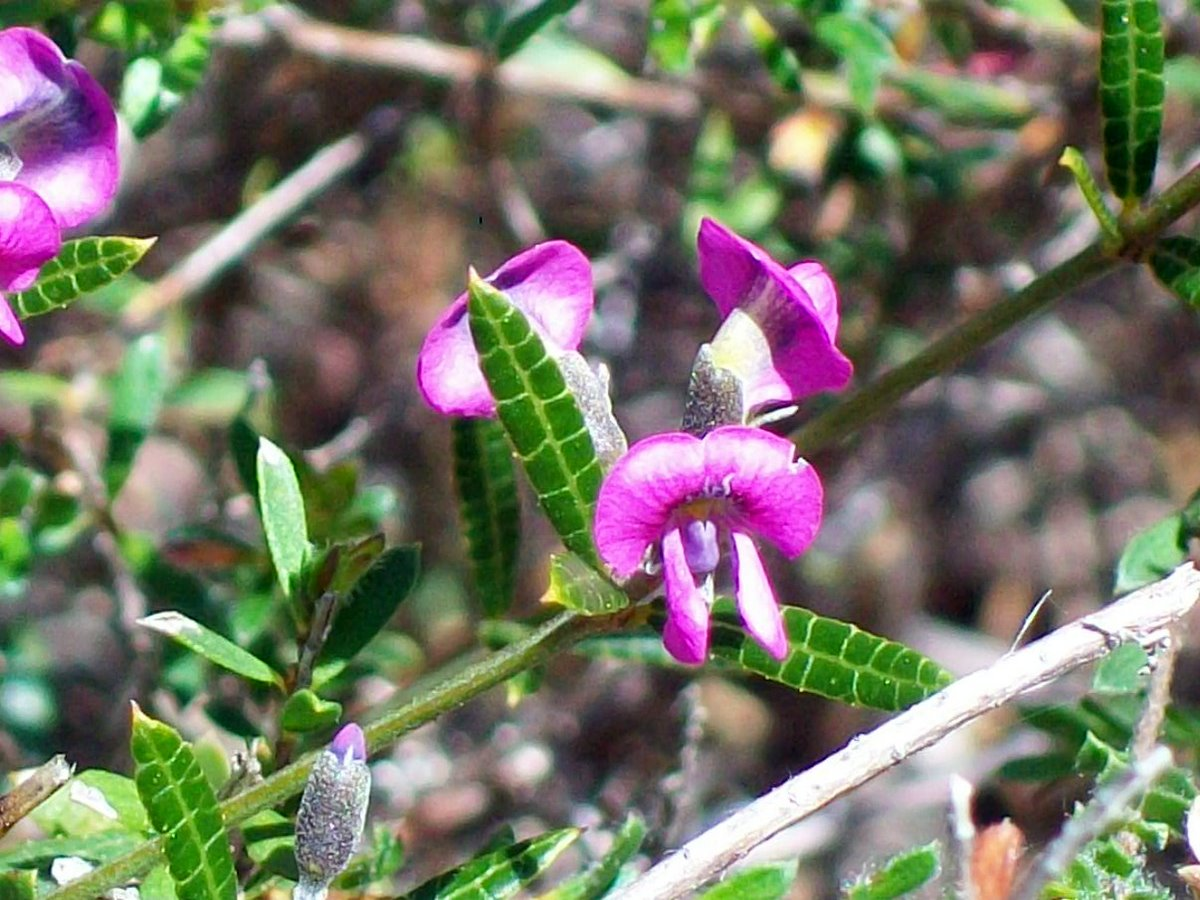 Mirbelia rubiifolia at the Towlers Bay Track, Ku-ring-gai Chase National Park, Australia